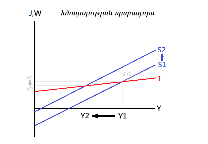 Paradox of thrift.png